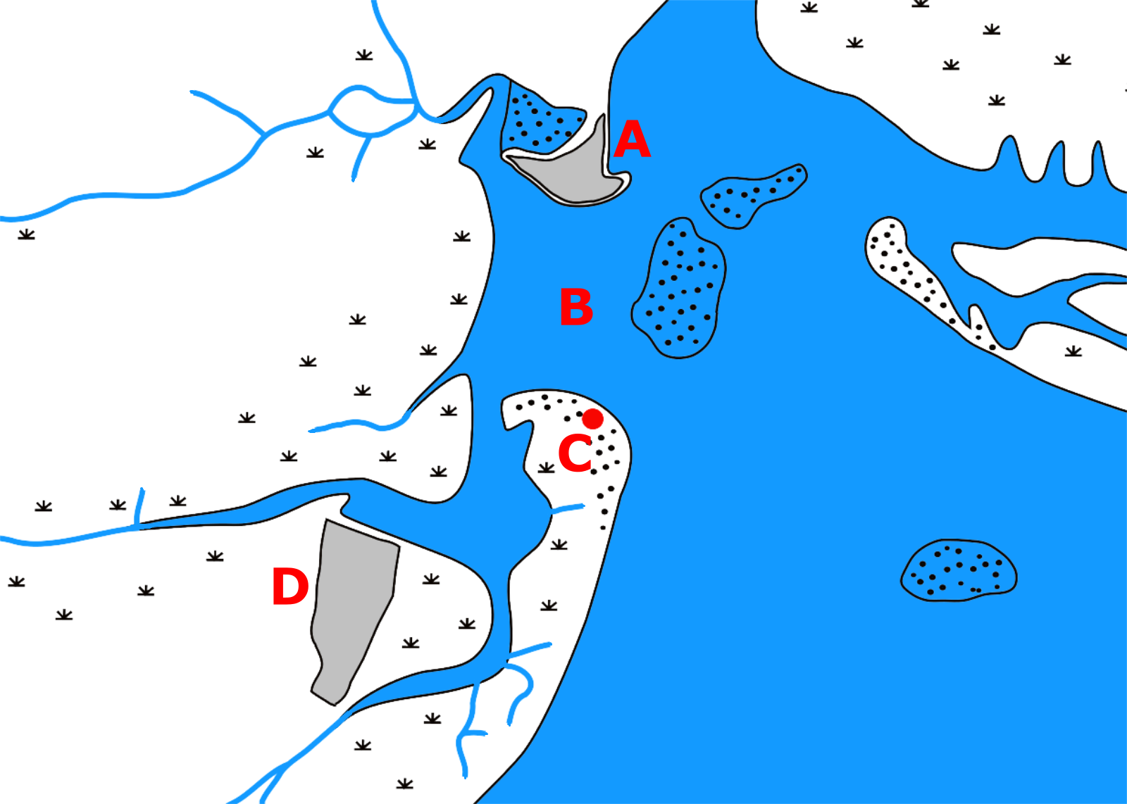 Camber Castle and environment in the late medieval period, after analysis in Rye Museum